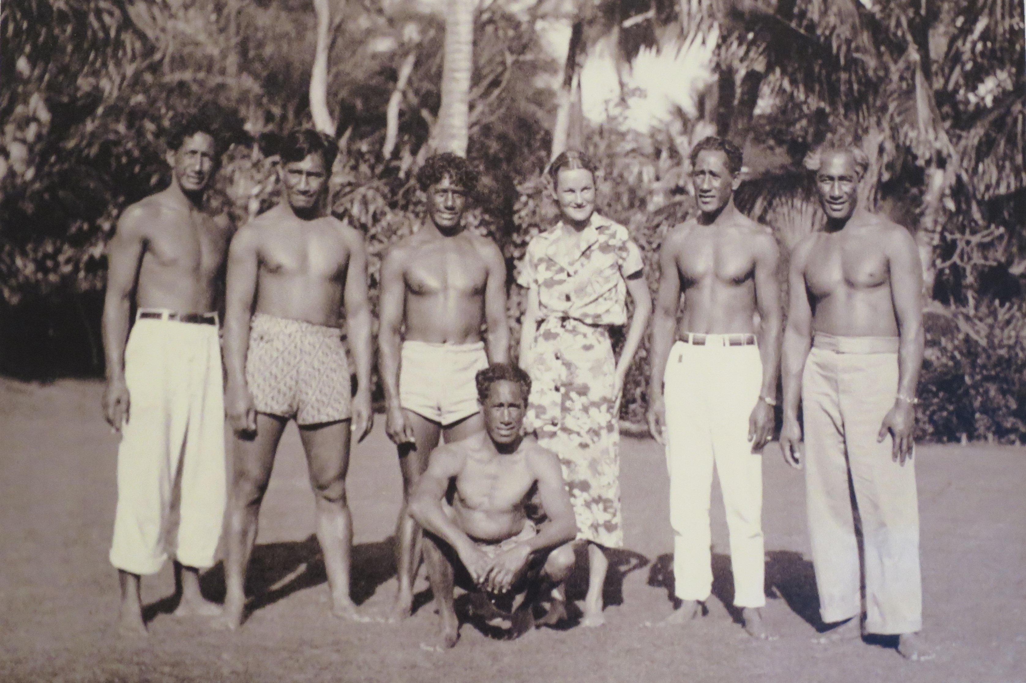 Sargent Kahanamoku, Louis Kahanamoku, Sam Kahanamoku, Bill Kahanamoku (seated), Doris Duke, David Kahanamoku, and Duke Kahanamoku (left to right), anonymous photograph, c. 1937, David M. Rubenstein Rare Book and Manuscript Library, Duke University